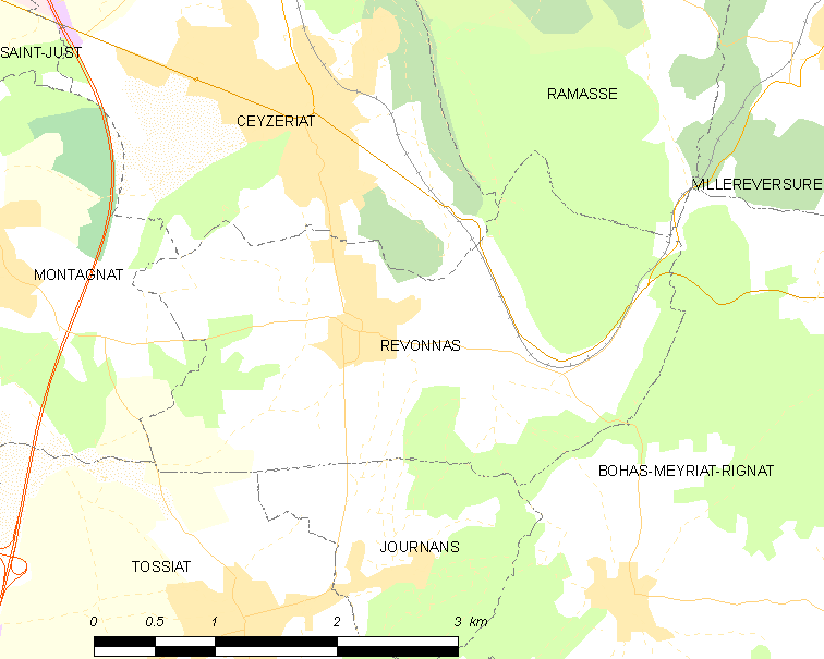 Map of French commune: Revonnas Map commune FR insee code 01321.png